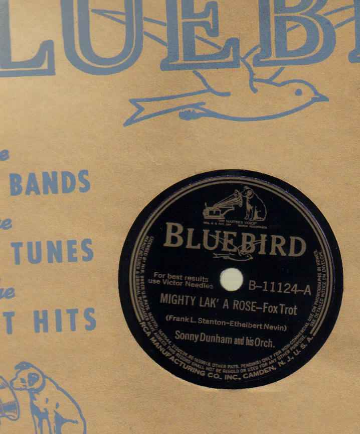 mighty lak a rose - sonny dunham 78 shellack